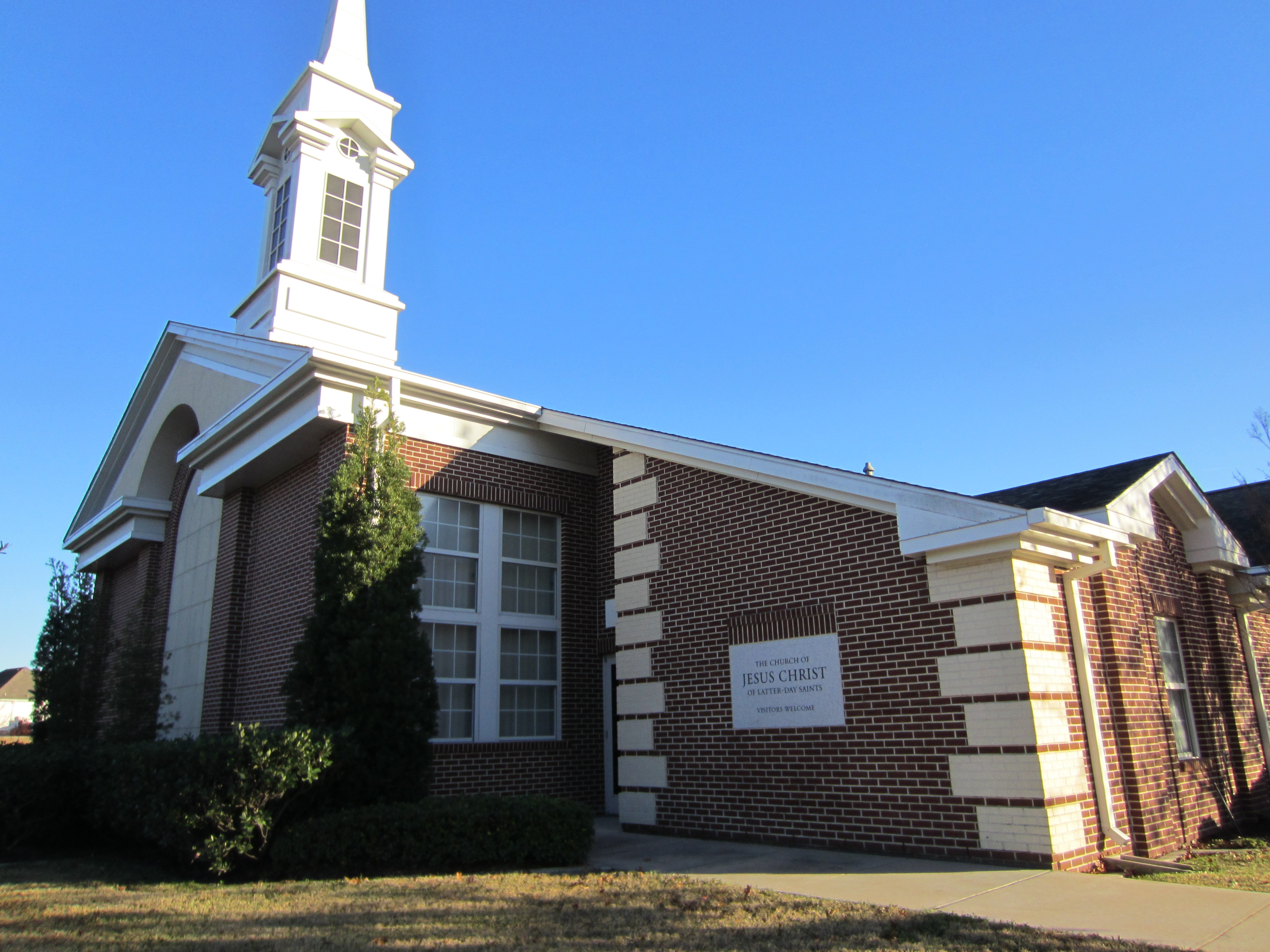 A meetinghouse of The Church of Jesus Christ of Latter-day Saints in northwest Houston, Texas in January 2012